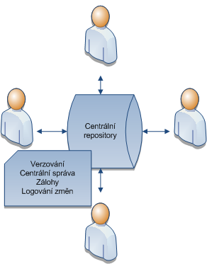 Reporsitory functionality diagram